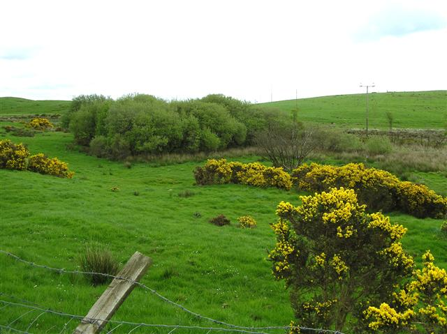 Doocrock Townland. There are a couple of chambered graves in this square.